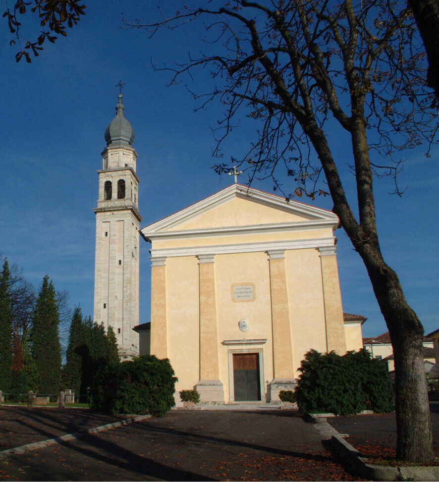 Paderno del Grappa - Paderno del Grappa's Church and bell tower.